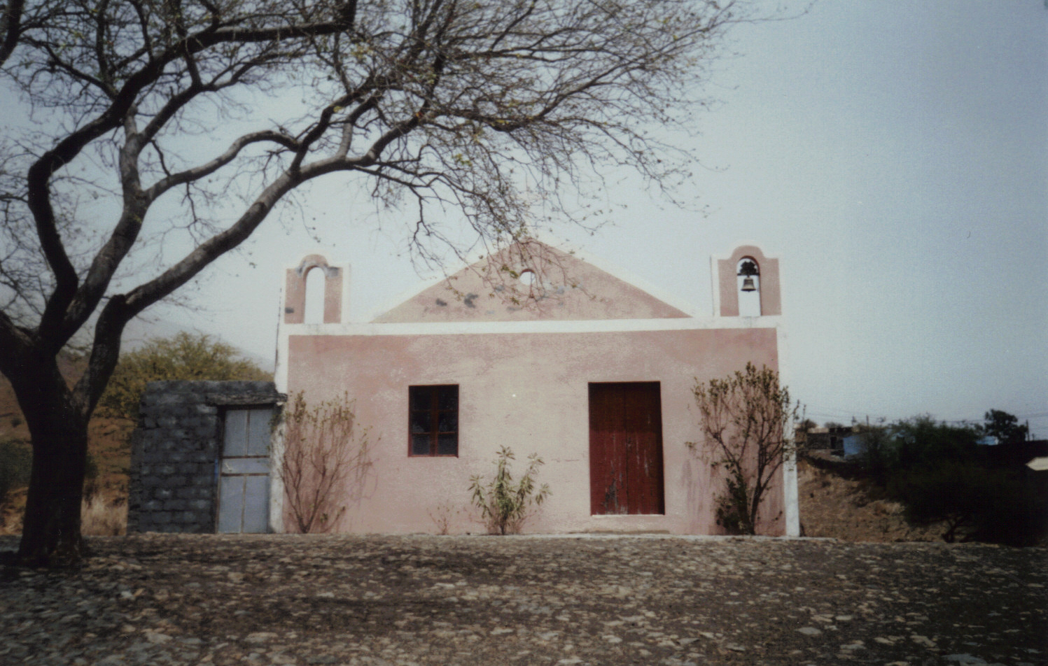 Church, village of Monte Largo, Fogo island, Cape Verde.